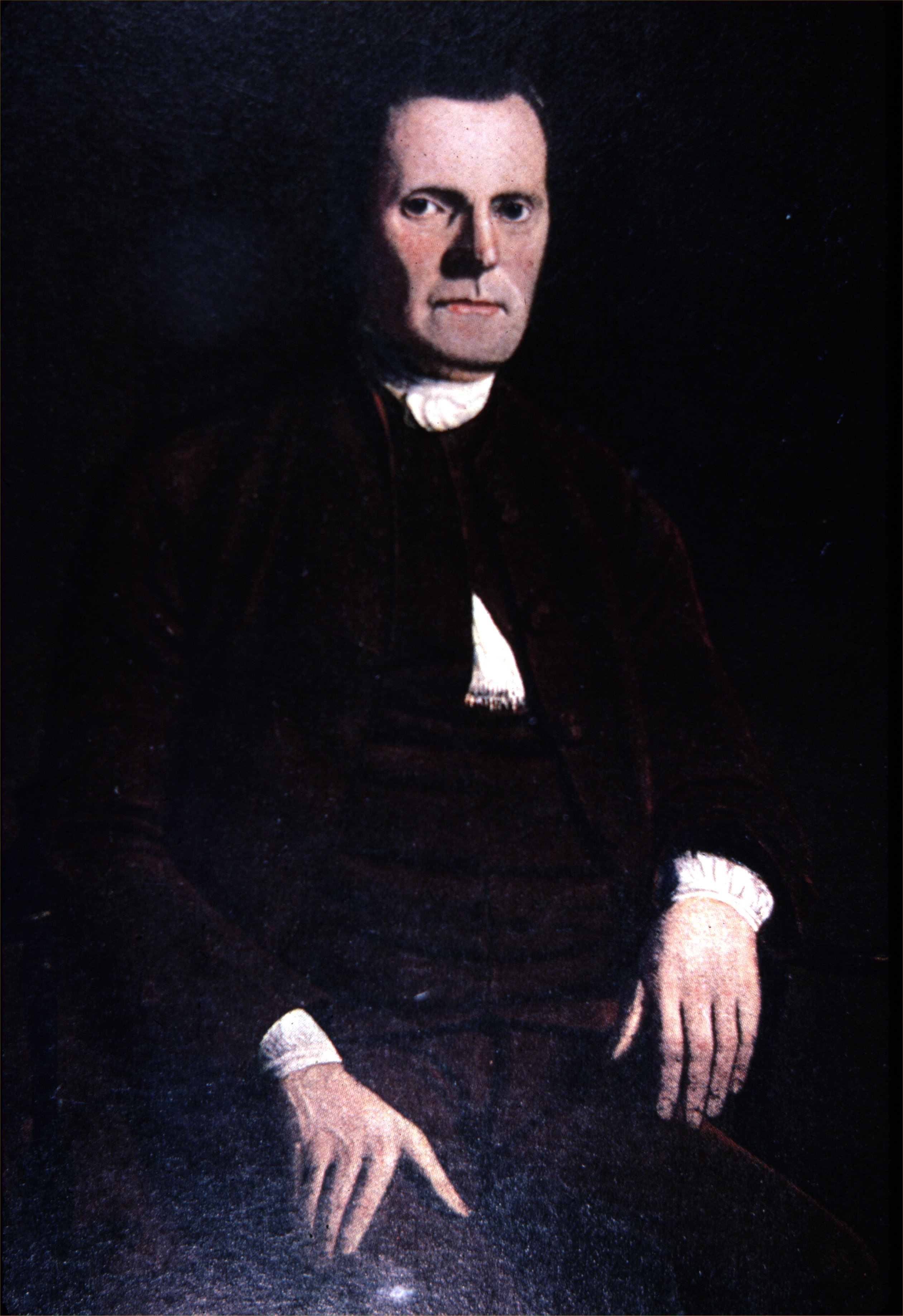 Roger Sherman (1721-1793)